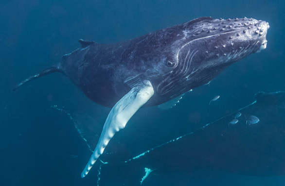 Underwater photograph of humpback whales in the South Bank, Dominican Republic